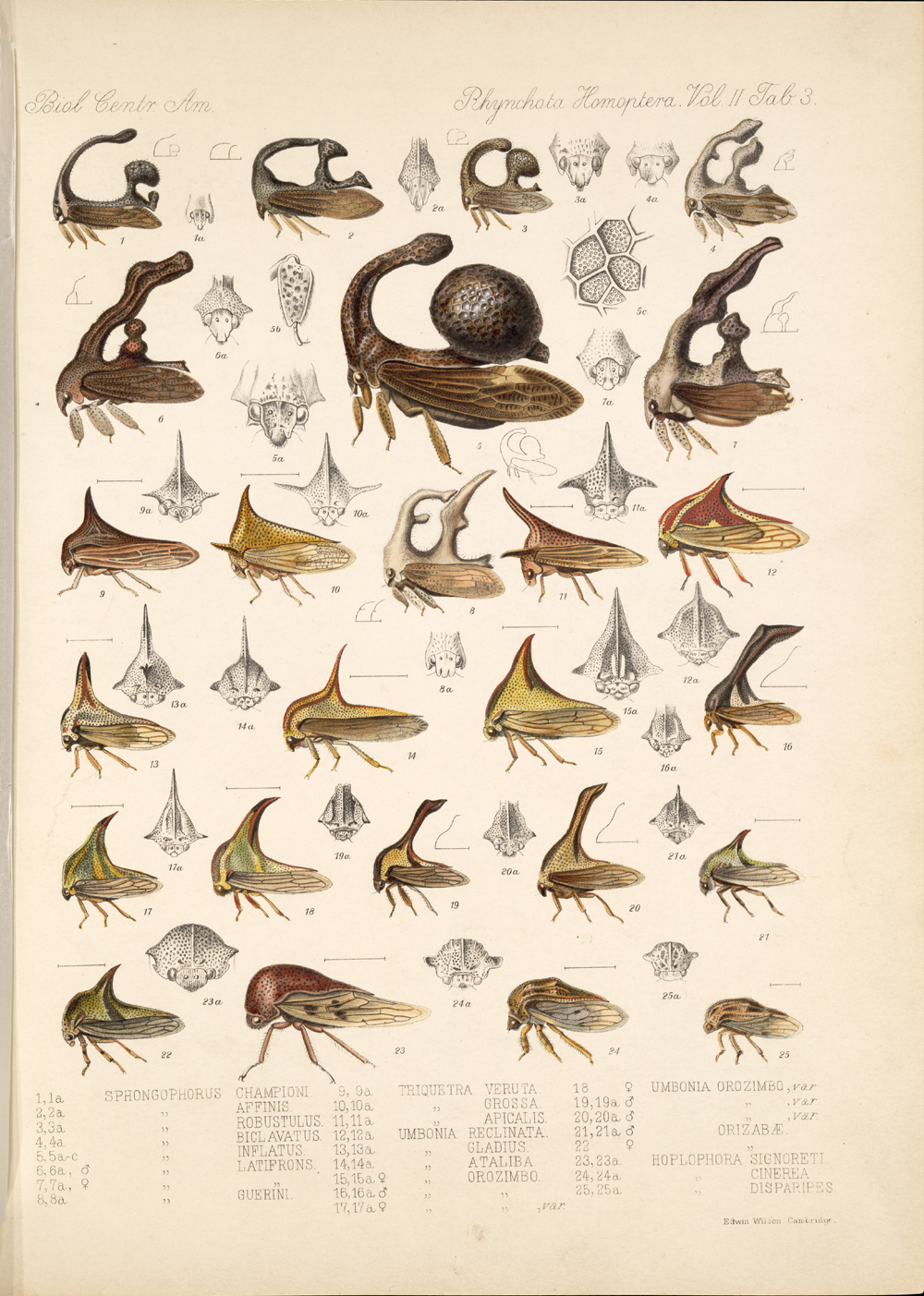 Membracidae Plate Sphongophorus championi, Sphongophorus affinis, Sphongophorus robustulus, Sphongophorus biclavatus Sphongophorus latifrons, Sphongophorus inflatus, Sphongophorus latifrons Triquetra veruta, Triquetra grossa, Sphongophorus guerini, Triquetra apicalis, Umbonia reclinata Umbonia gladius, Umbonia ataliba, Umbonia orozimbo, Umbonia orozimbo Umbonia orozimbo (prime quattro), Umbonia orizabae (l'ultima) Umbonia orizabae, Hoplophora signoreti, Hoplophora cinerea, Hoplophora disparipes